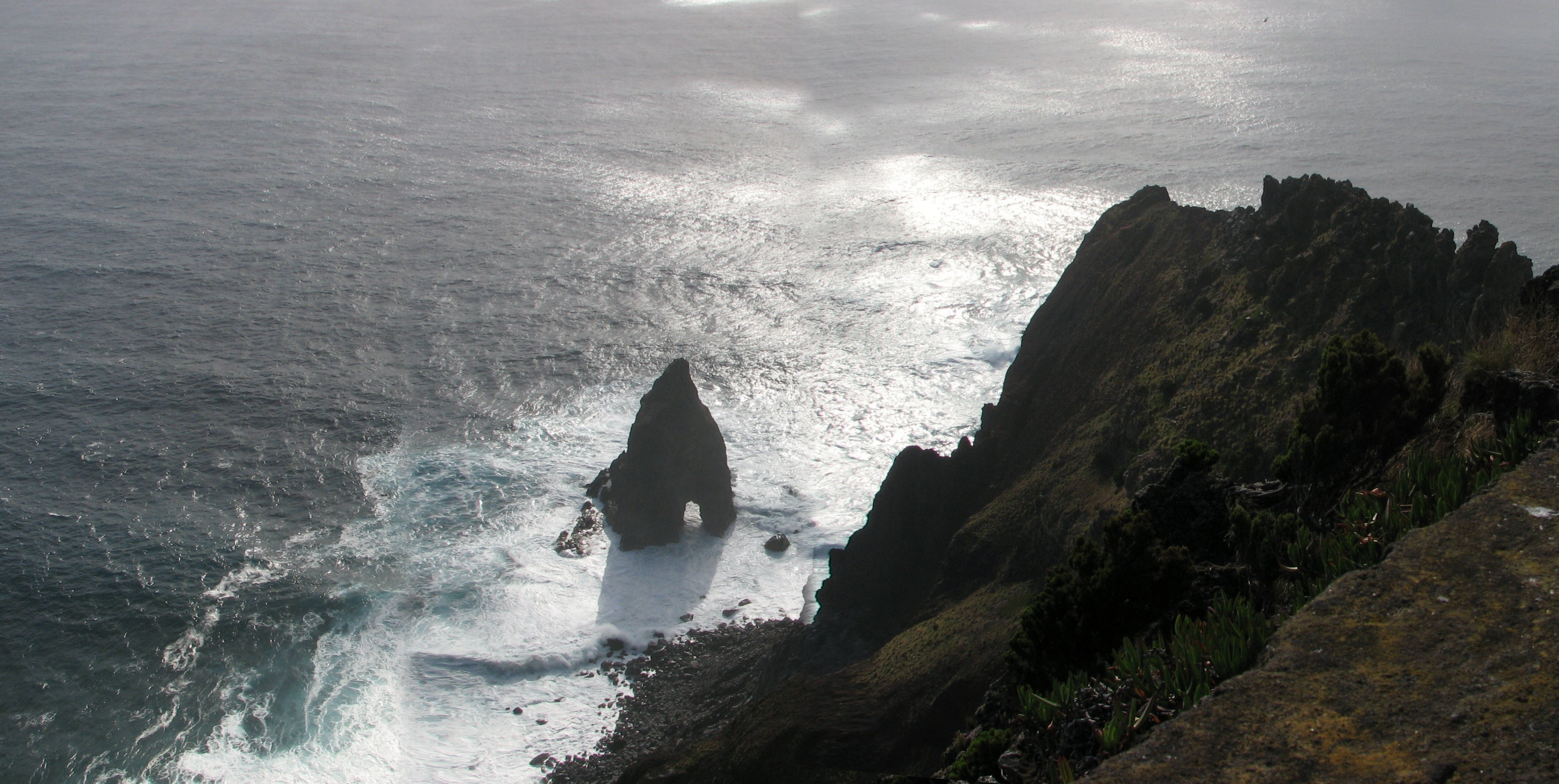 The southern islet at Ponta dos Rosais, Azores.